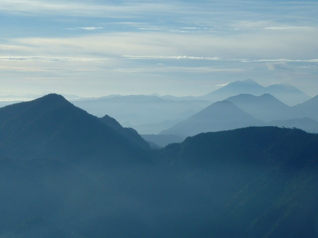 Volcanoes of Guatemala. To the east, the volcanic chain continues into the distance. In the center of this photo, a tiny sliver of Lake Atitlán can be seen.